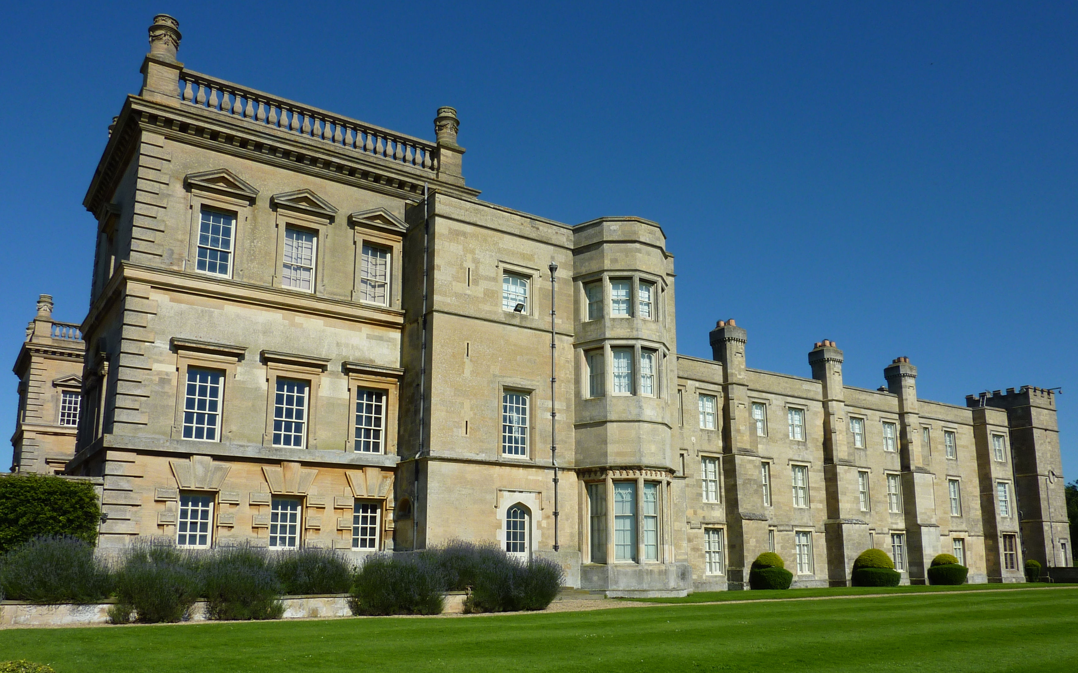 Grimsthorpe Castle - West Facade